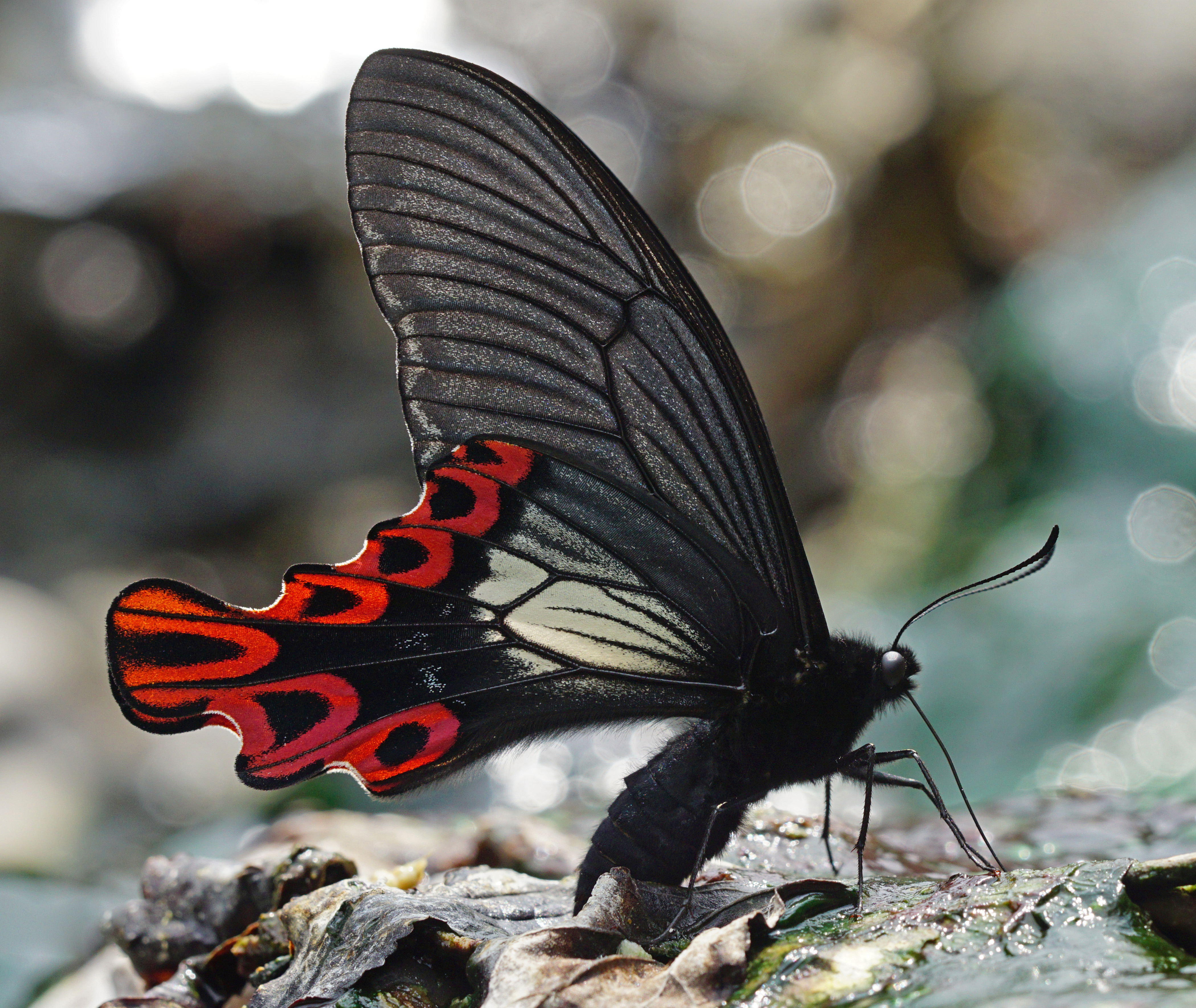 Male Papilio maraho butterfly. 中文（台灣）: 台灣寬尾鳳蝶 Papilio maraho